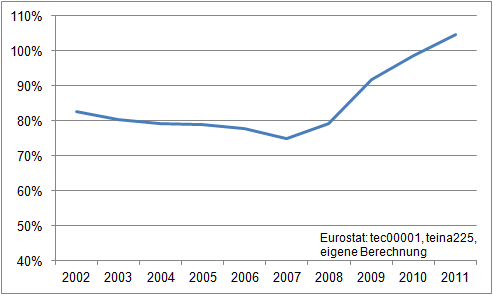 Debt to GDP Ratio of GIIPS Countries, 2002-2011. Calculated from (General government gross debt) and (GDP at market prices); own calculationValues: 2002: 82,7%; 2003: 80,3; 2004: 79,1; 2005: 78,8; 2006: 77,8; 2007: 74,8; 2008: 79,1; 2009: 91,8; 2010: 98,7; 2011: 104,6